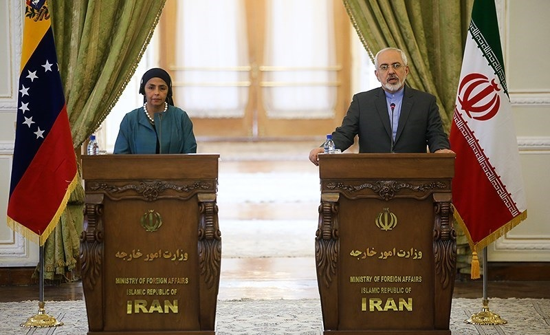 Iranian FM Mohammad Javad Zarif in joint press conference with Venezuelan FM Delcy Rodríguez, Tehran